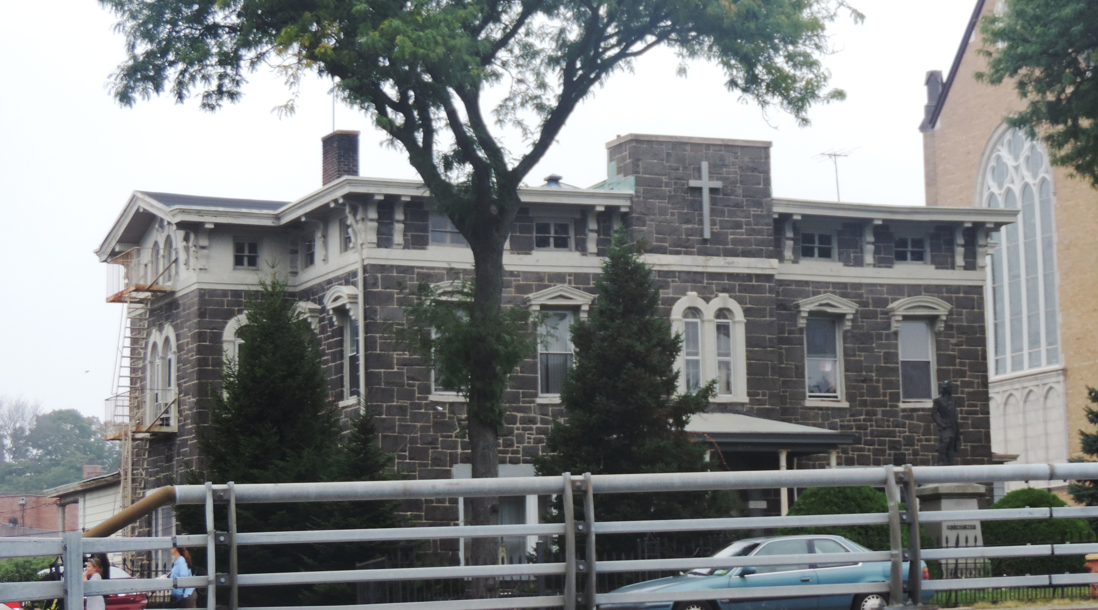 Looking west at rectory on a cloudy day.